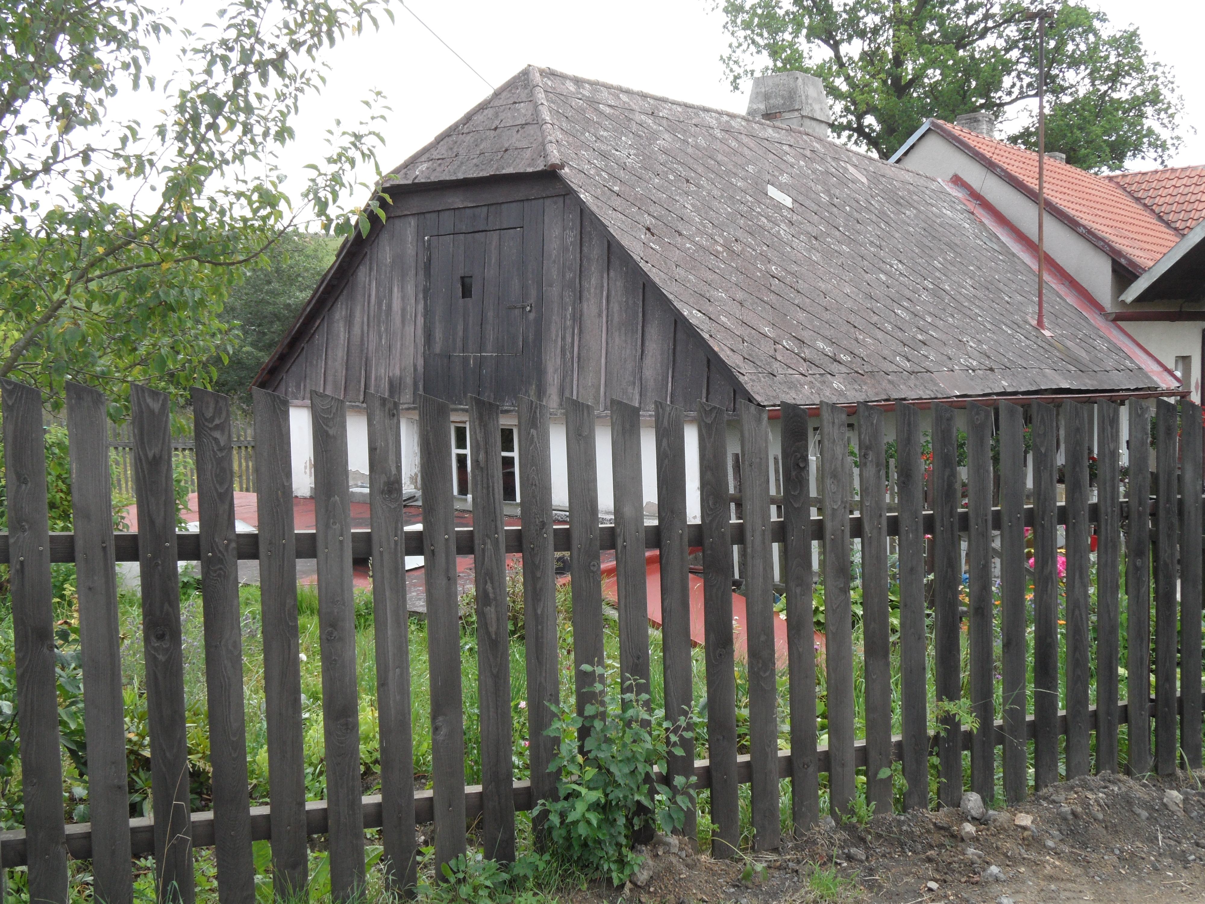 Rápošov A. Village Cottage, Kutná Hora District, the Czech Republic.